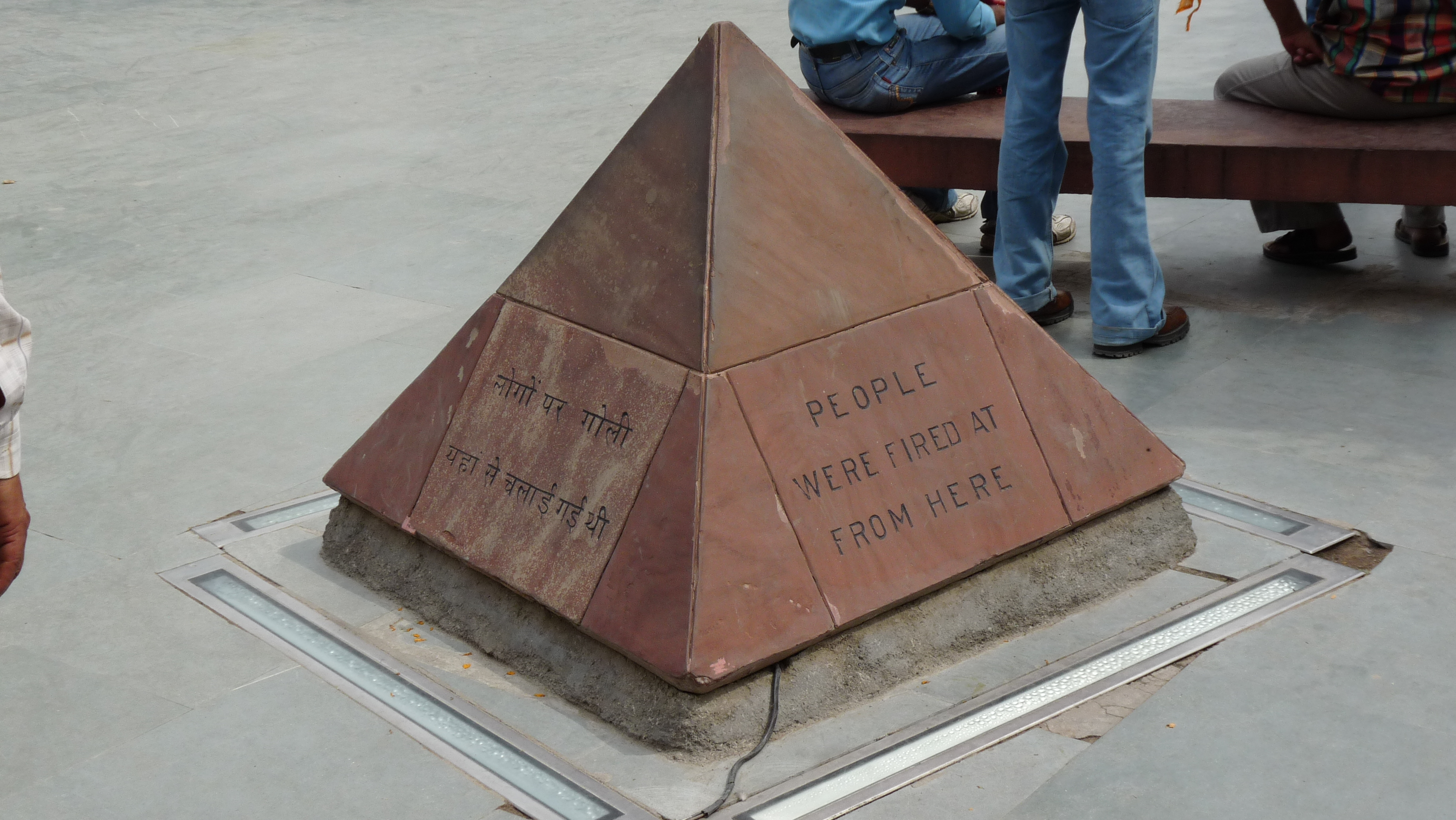 1600 rounds were fired by British troops from here on 20,000 innocent people.